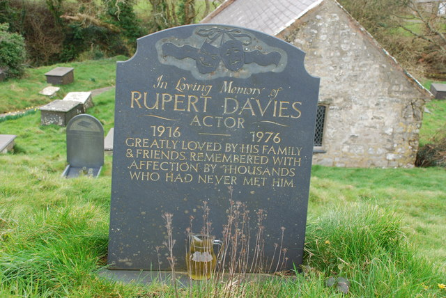 Bedd Rupert Davies Pistyll Grave of Rupert Davies The actor best known for his portrayal of Georges Simenon's detective hero Maigret is buried in the tranquillity of Pistyll churchyard.